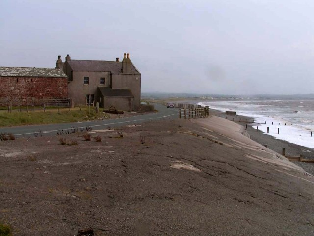 Seacroft Farm, Dubmill Point. This farmhouse needs to be as substantial as it looks. The sea comes right up to the defences in the picture, and the area is extremely exposed in a good westerly gale.